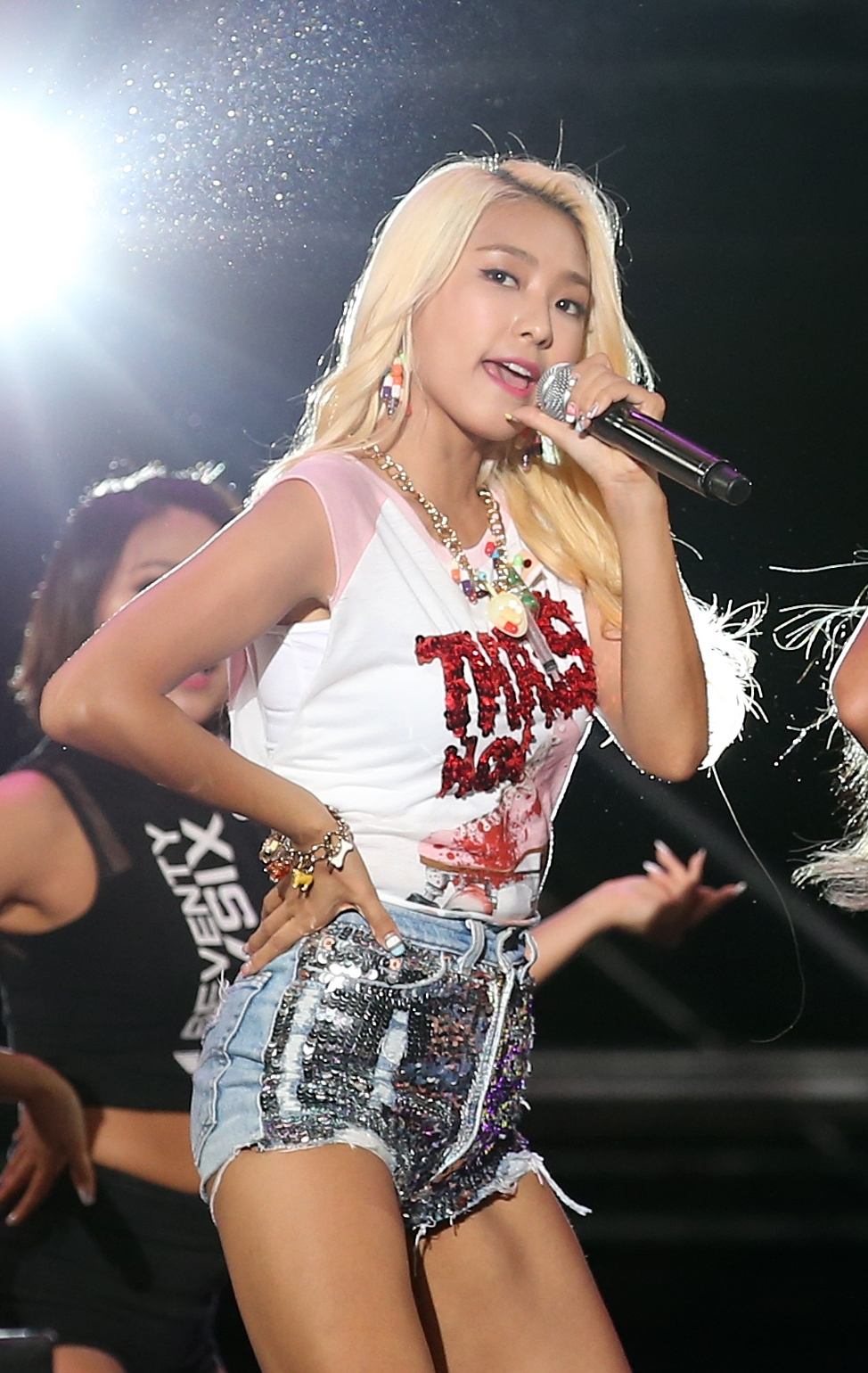 The Eve Festival for ‘The 70th Independence Day of Republic of Korea’. Seoul Plaza, Seoul. Ministry of Culture, Sports and Tourism. Korean Culture and Information Service. ( Photographer : Jeon Han. The photograph may not be used in any type of commercial, advertisement, product or promotion that in any way suggests approval or endorsement from the government of the Republic of Korea.-------------------------------------------------광복 70년 전야제2015-08-14시청광장문화체육관광부해외문화홍보원코리아넷전한